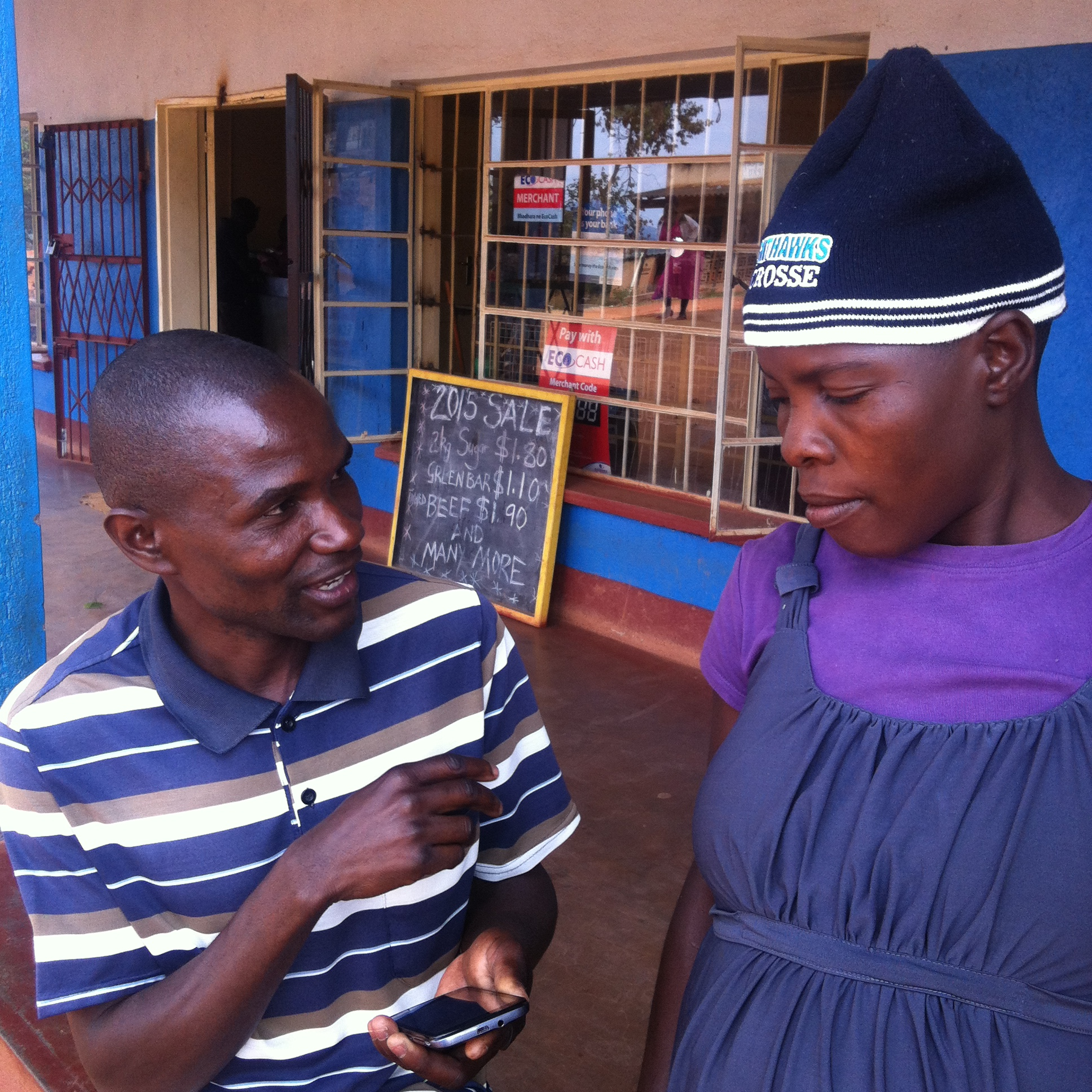 An enumerator conducting a survey using a mobile phone based questionnaire in rural Mutasa, Zimbabwe This is an image of "African people at work" from Zimbabwe